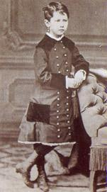 María Sanz de Sautuola (1870-1946), the girl who discovered the cave paintings of Altamira